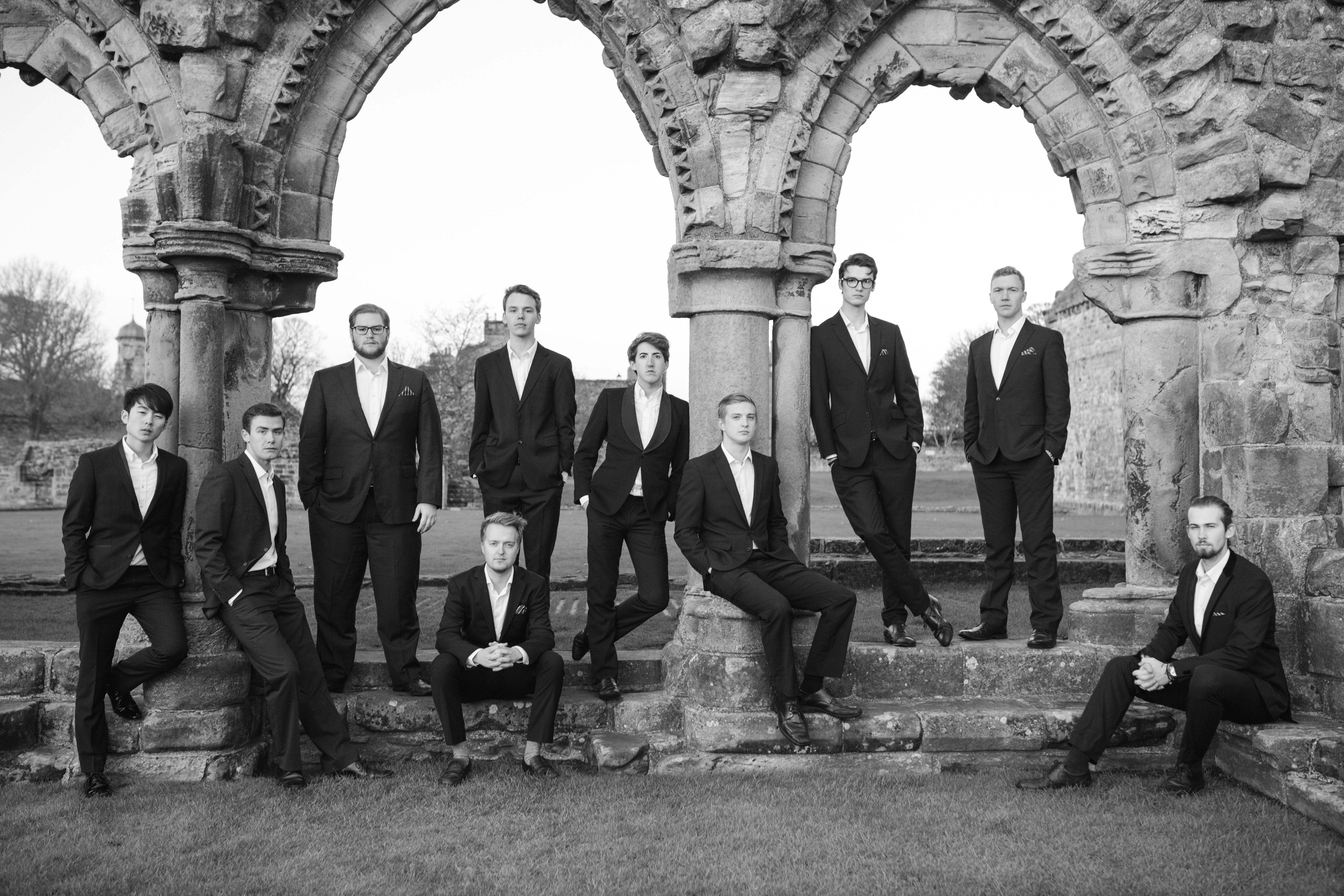 The Other Guys 2015/16 - credit to Lightbox Creative St Andrews